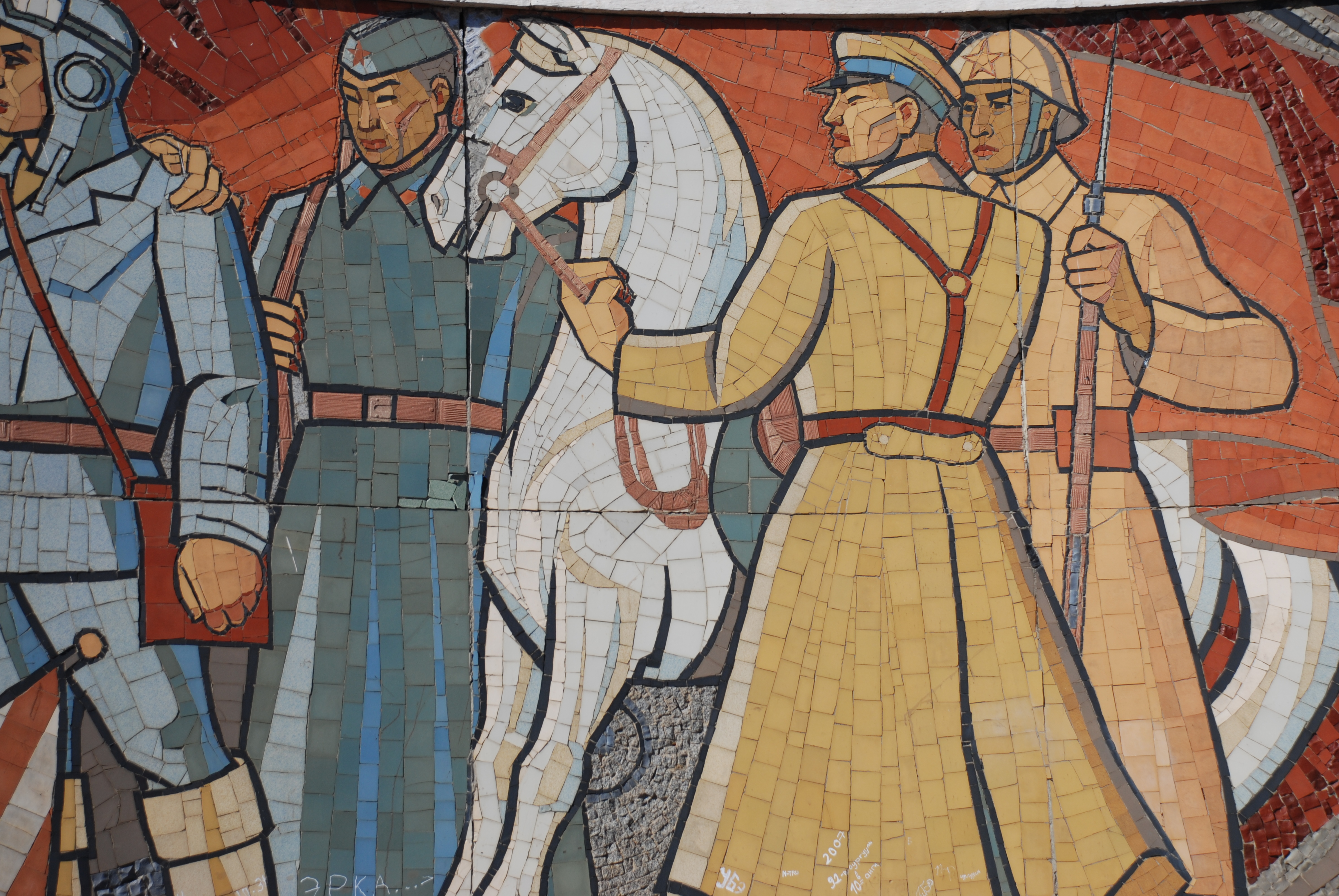 The Soviet-Russian tiled mural at the World War II Zaisan Memorial, Ulaan Baatar, from the People's Republic of Mongolia era.